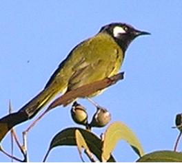 Cowan NSW Australia, 2-Sep-2006